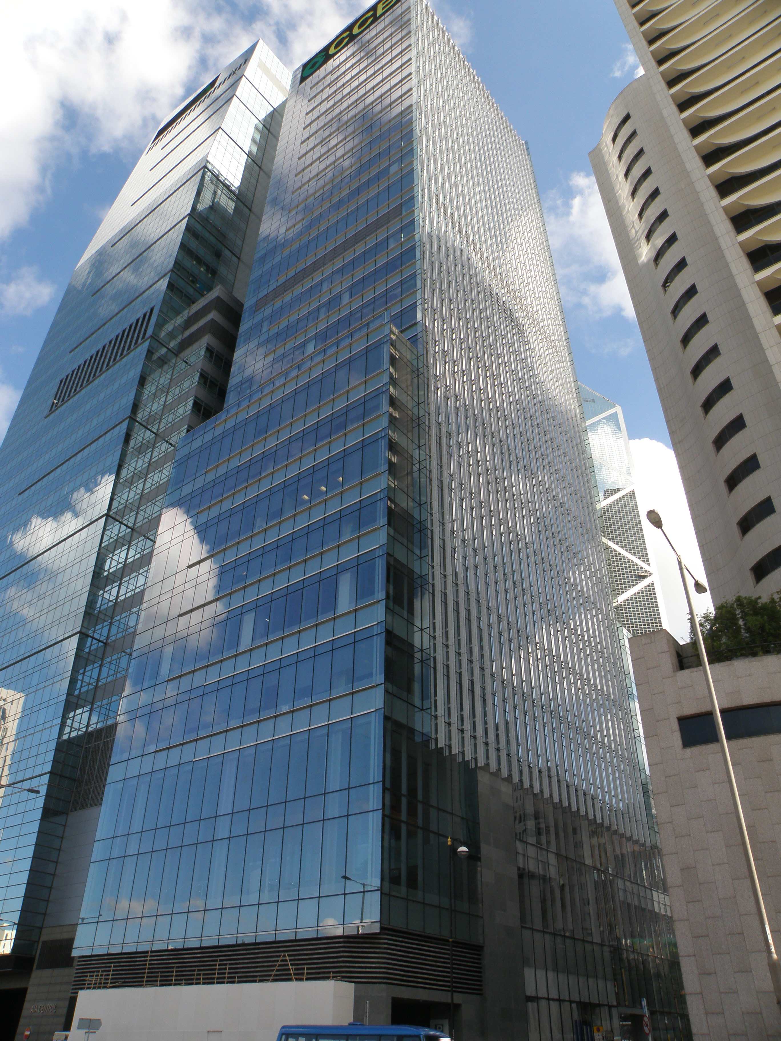 CCB Tower in Central, Hong Kong.